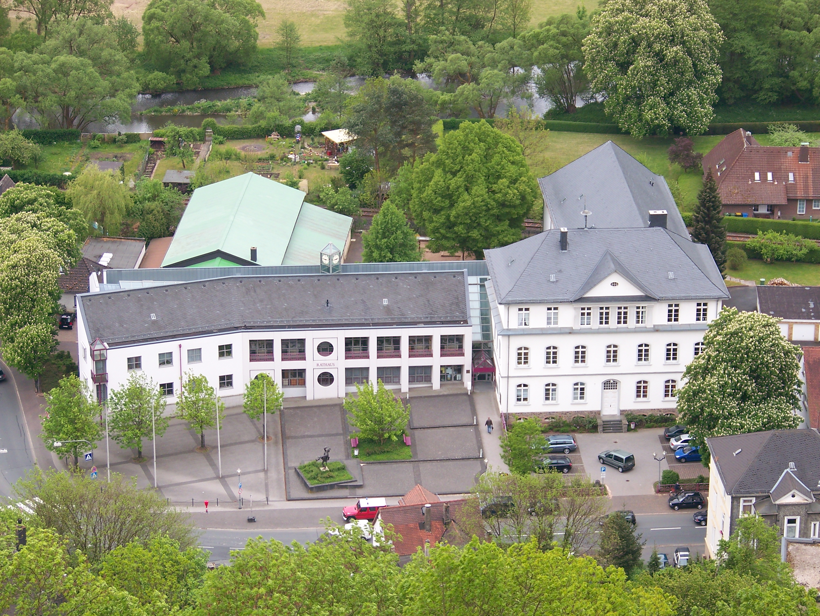 Town Hall in Biedenkopf; the right part of the building is the former school building of "Lahntalschule" (Gymnasium)